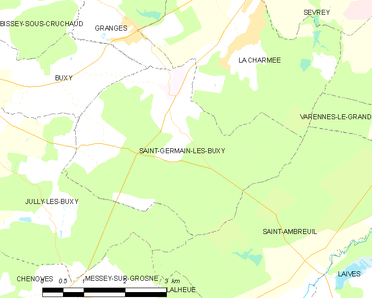 Map of French municipality